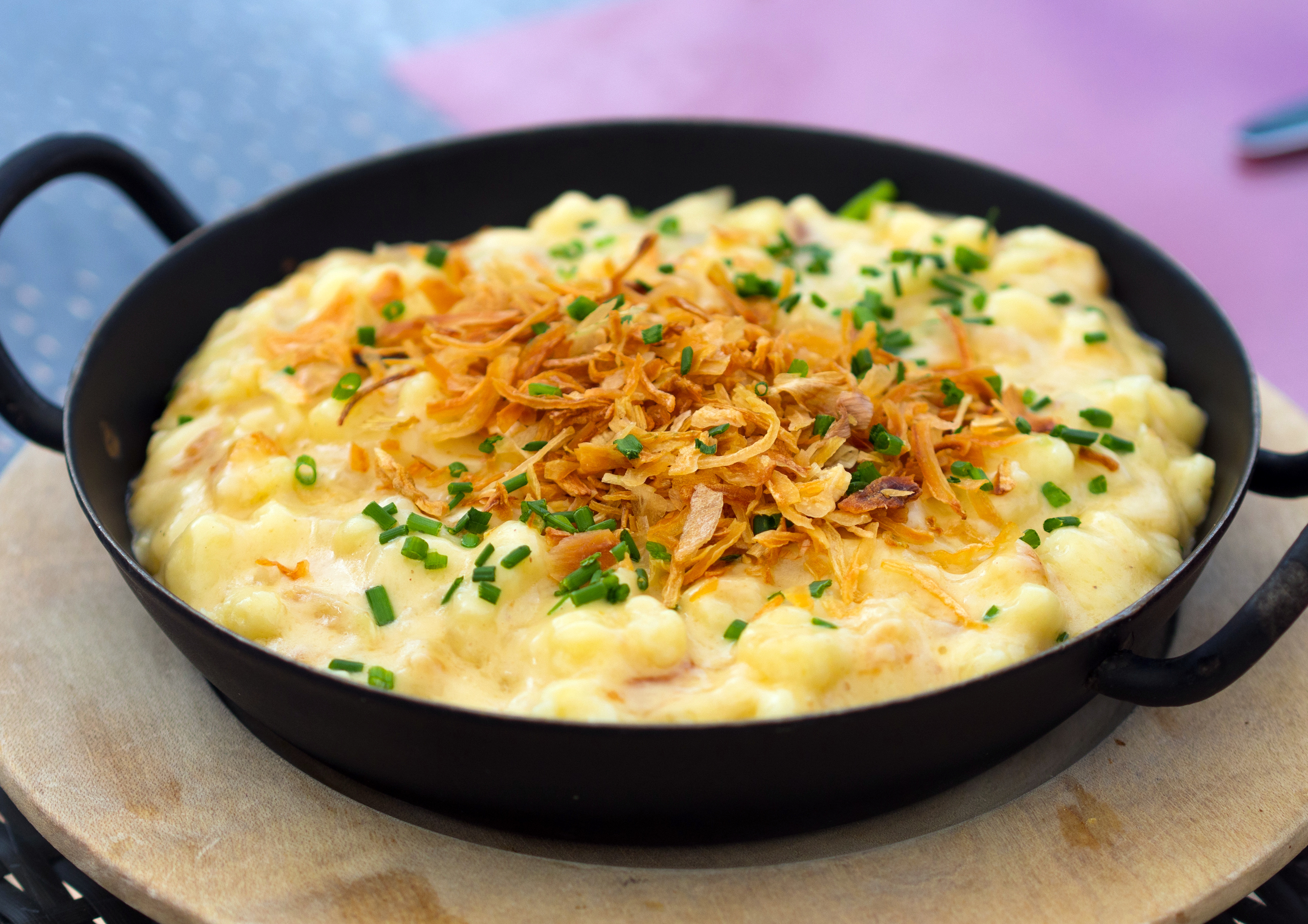 Käsespätzlein Sölden, Tyrol